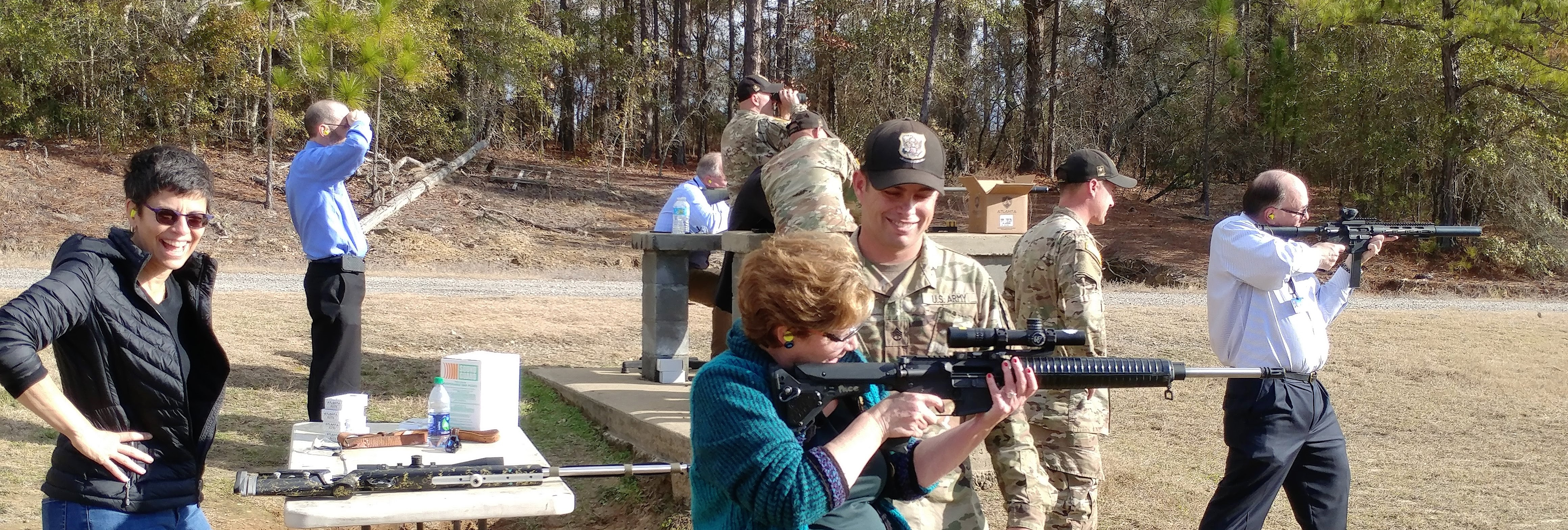 ASB Members at the Armour Marksmanship Unit, Ft Benning, GA_2018